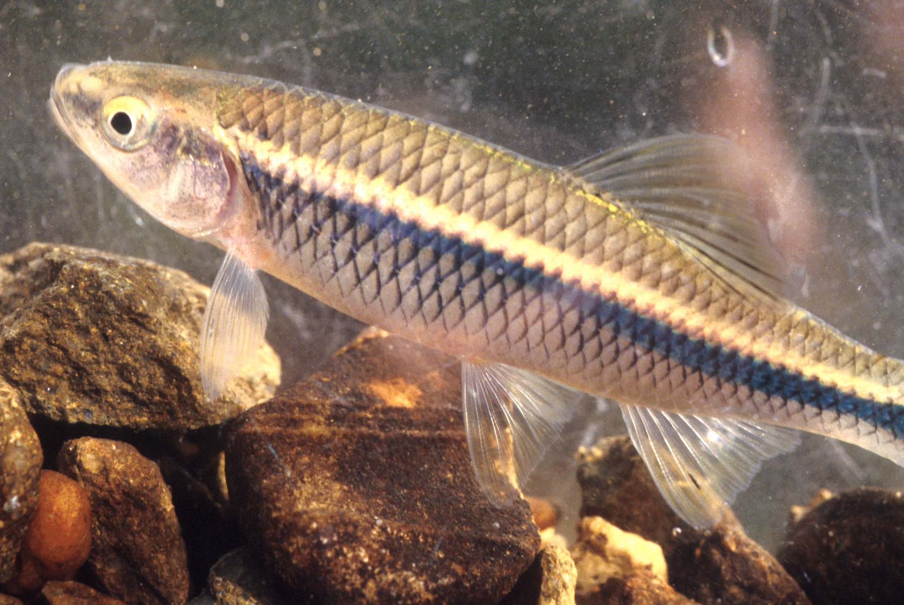 Cyprinella caerulea USFWS photo